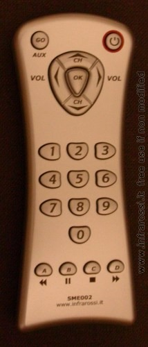 Infrared remote control - Manufacturer from wallis italia